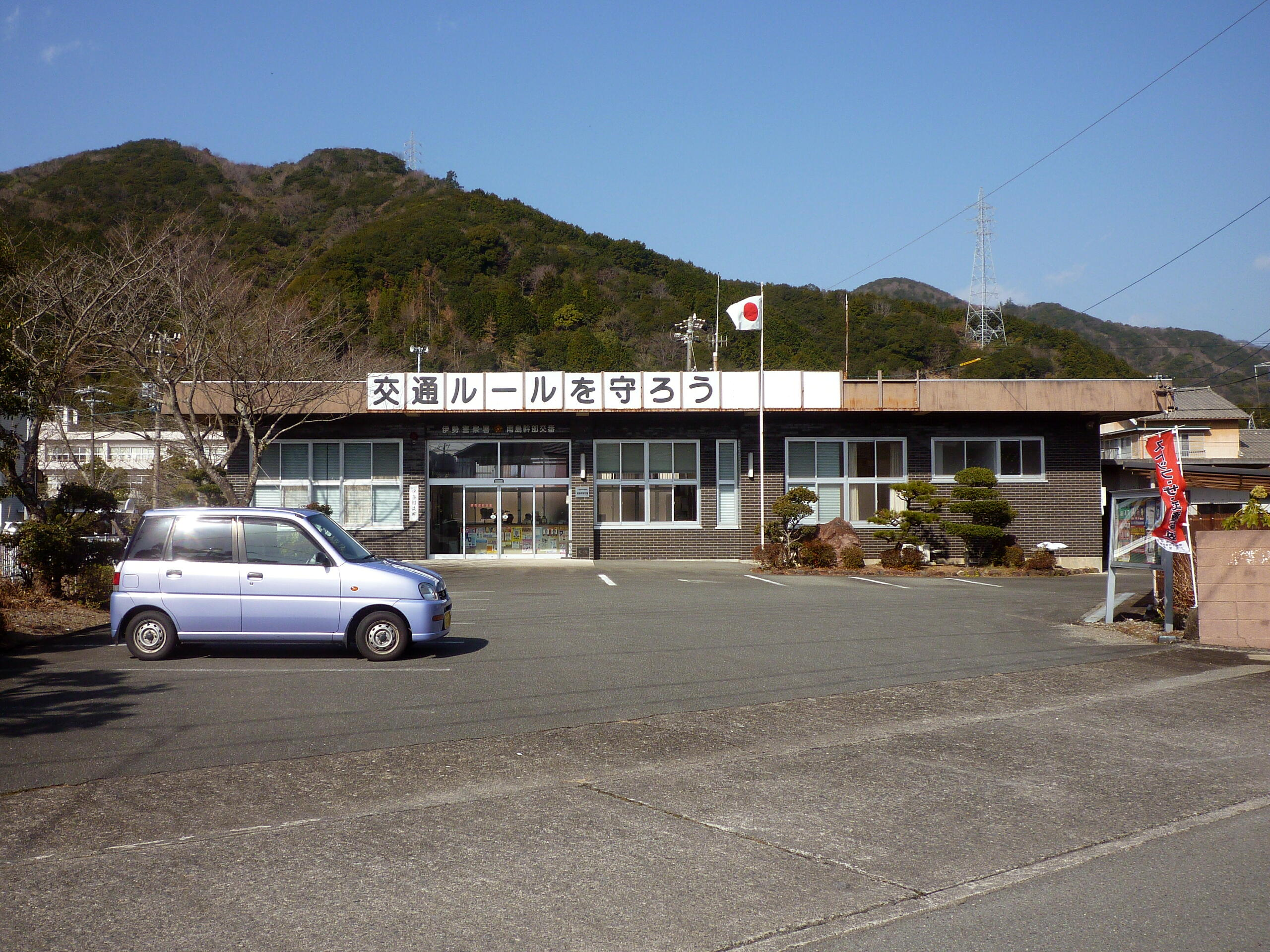 The "Ise Police station Nantō Kanbu Kōban" in Murayama, Minamiise Town, Watarai District, Mie Prefecture, Japan.